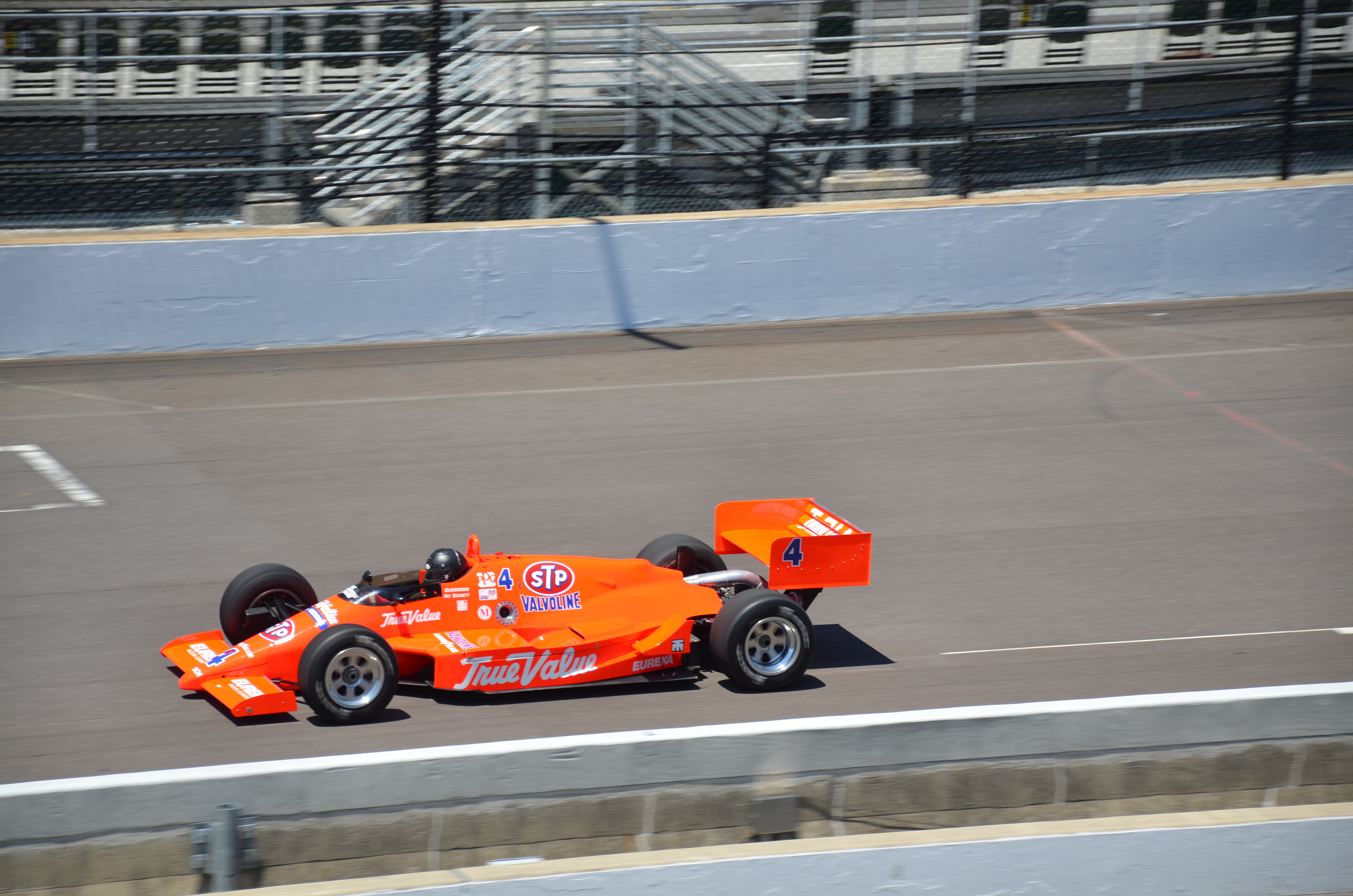 Replica (recreation or restoration) of Roberto Guerrero's 1987 March/Cosworth Indy car at SVRA Brickyard June 2016.